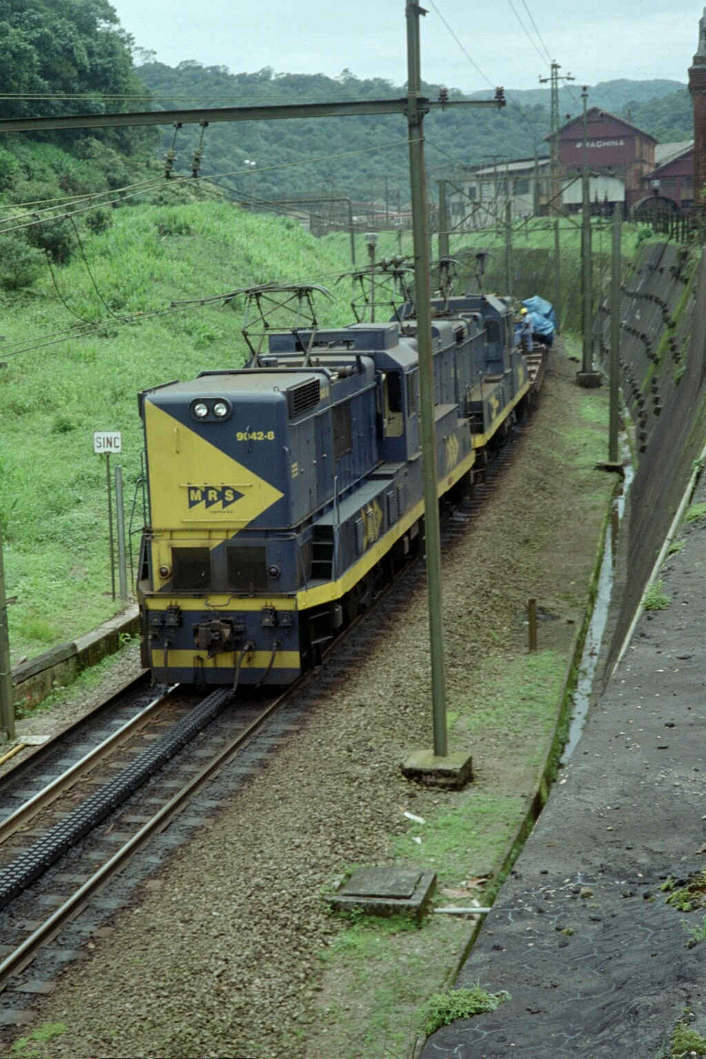 Upper end of the rack railway line at Paranapiacaba